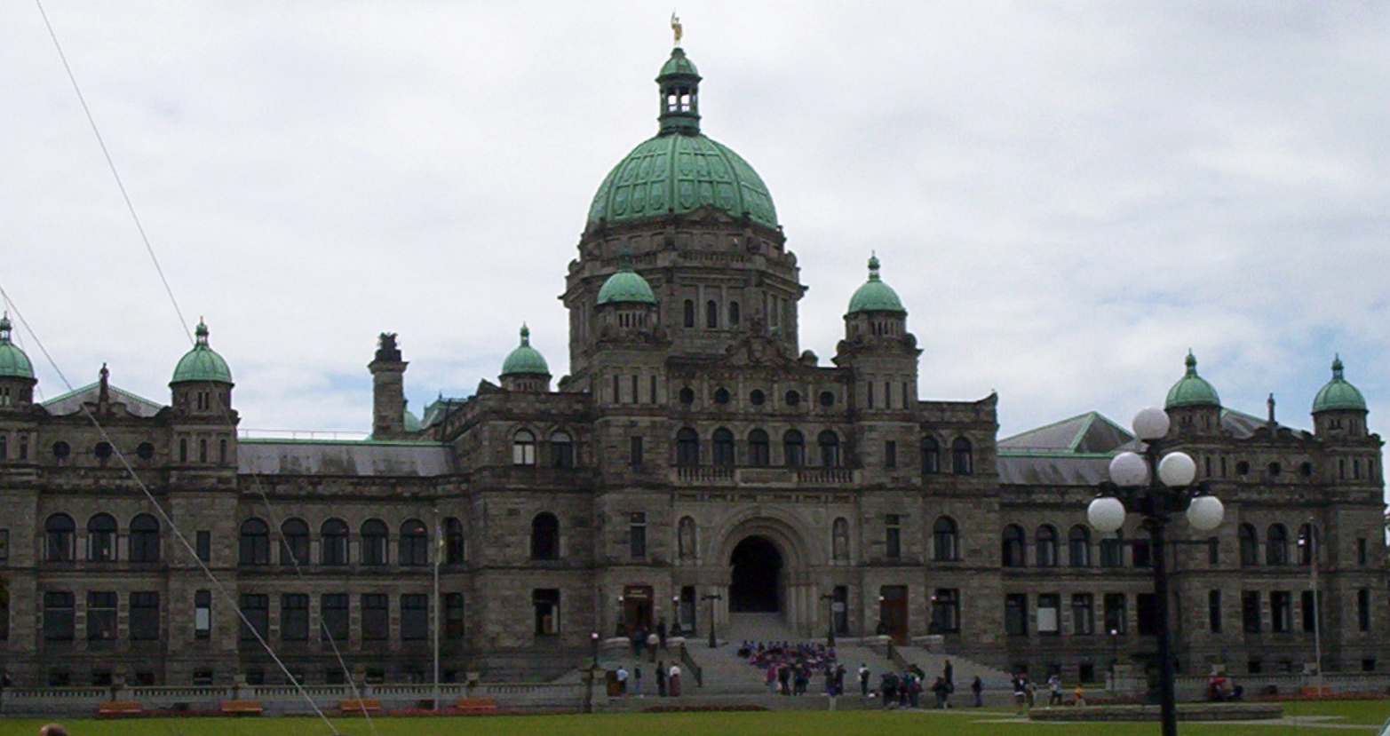 Main building of the Legislative Assembly of British Columbia, Canada.BC Parliament, Victoria